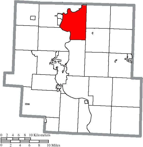 Map of the municipal and township boundaries of Muskingum County, Ohio, United States, as of the 2000 census, with the location of Madison Township highlighted. Township borders are shown only in unincorporated areas in order to differentiate incorporated and unincorporated areas more clearly.